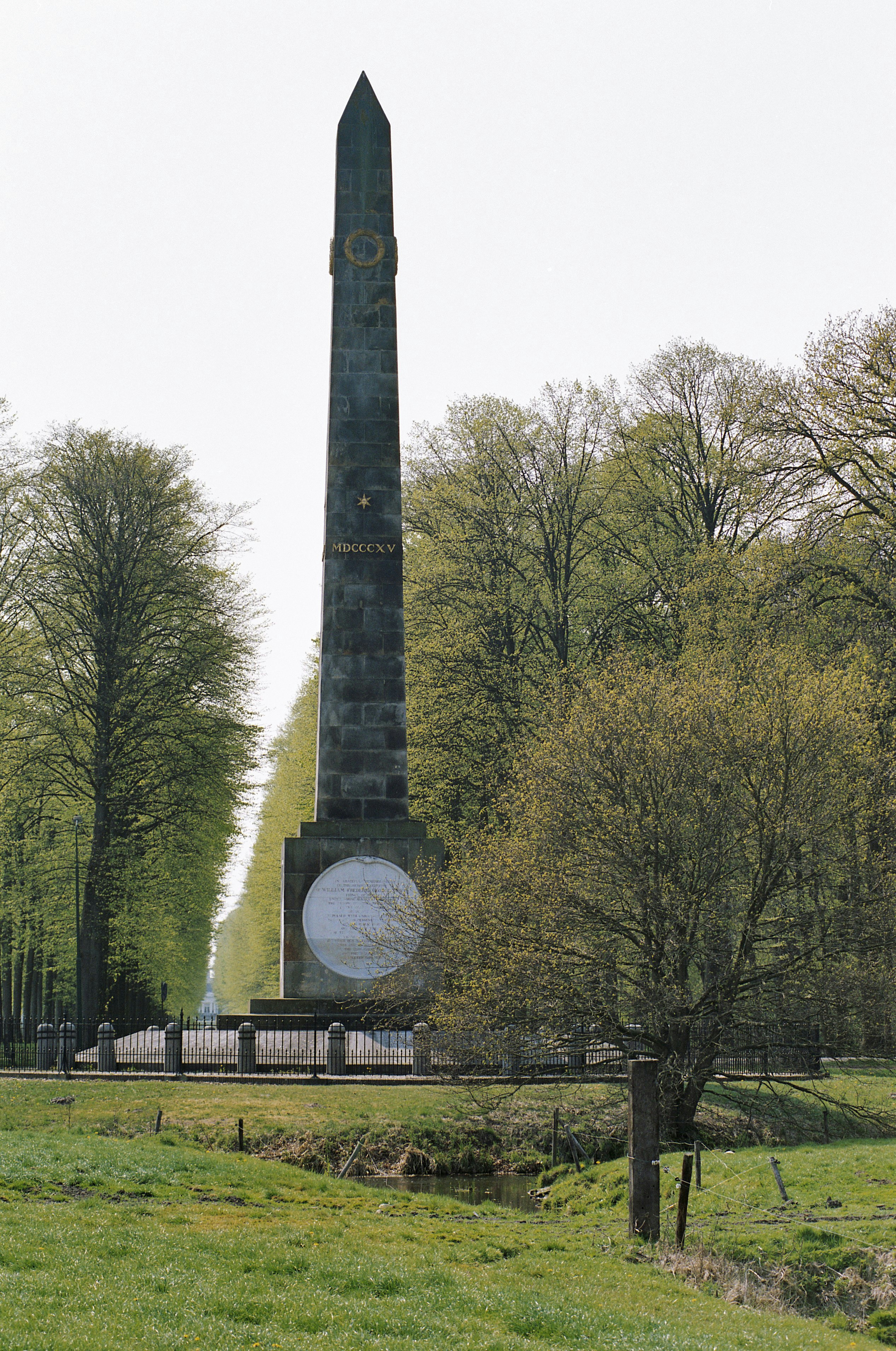 Remember the Needle Quatre Bras: Rememberance pillar in memory of the Battle of Quatre Bras (Note: Made for book Monuments of Orange and Nassau)